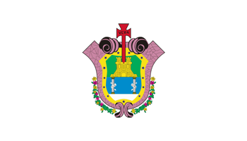 Flag of the State of Veracruz, Mexico.